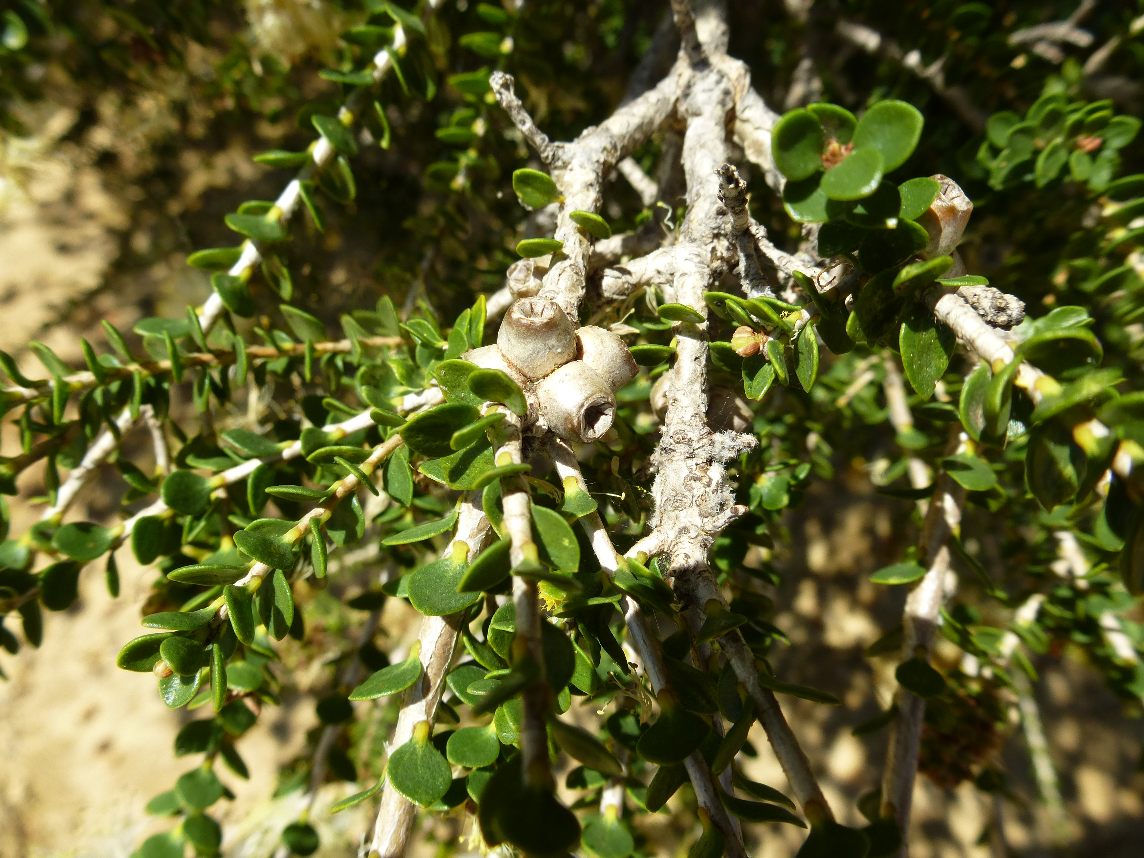 Melaleuca huttensis growing at the type location near Coronation Beach Road